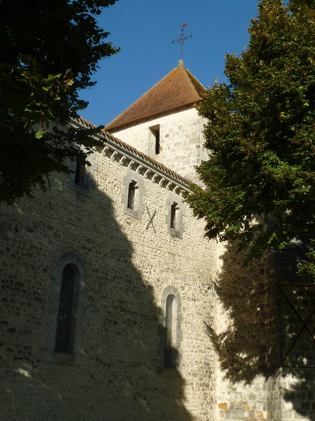 church of Juignac, Charente, SW France